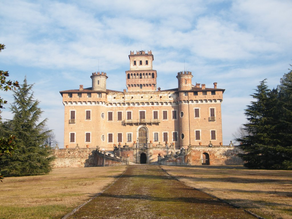 Castle. Chignolo Po.